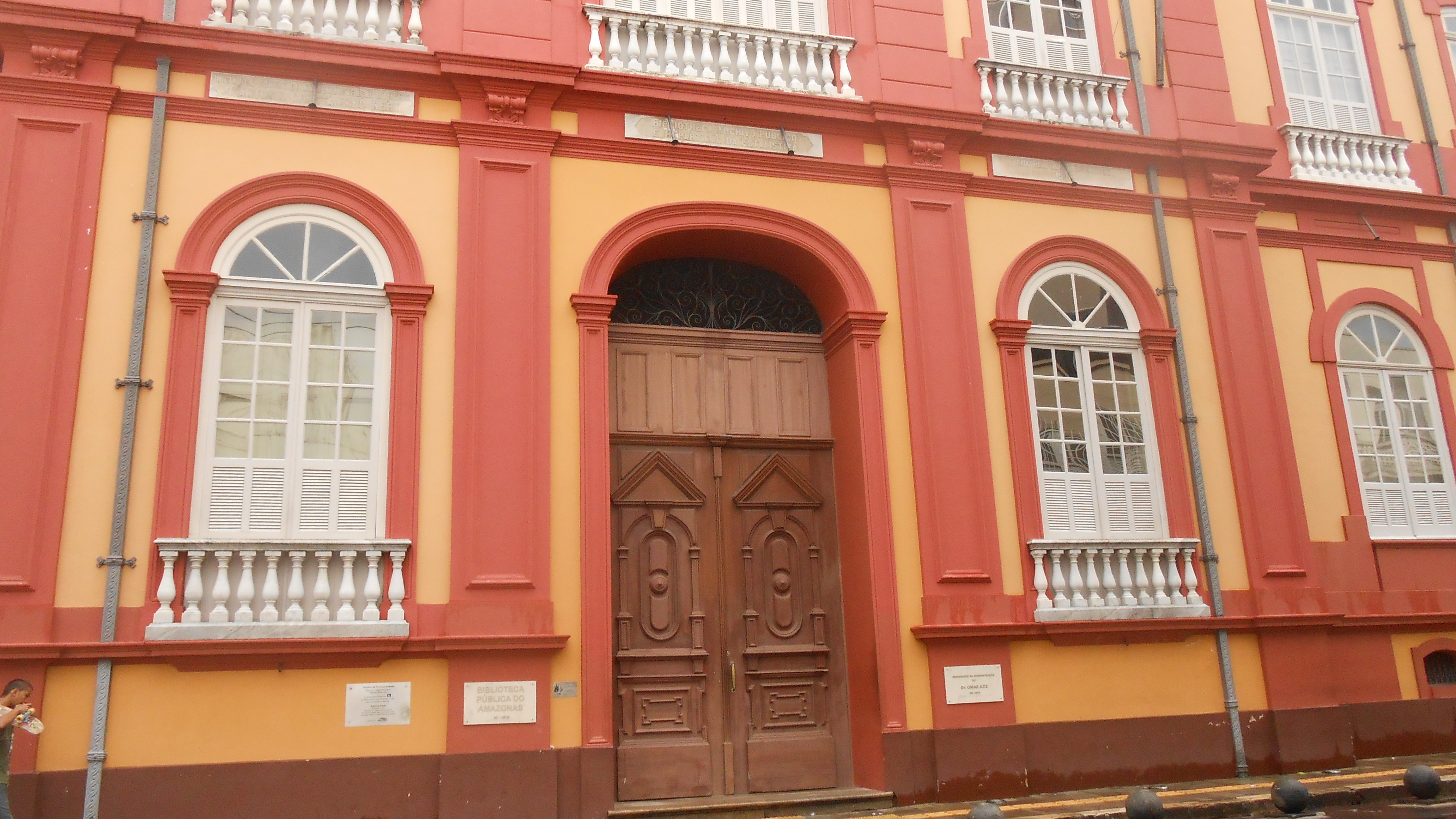 The historic public library of the Amazonas (Biblioteca Pública do Amazonas) in downtown Manaus.